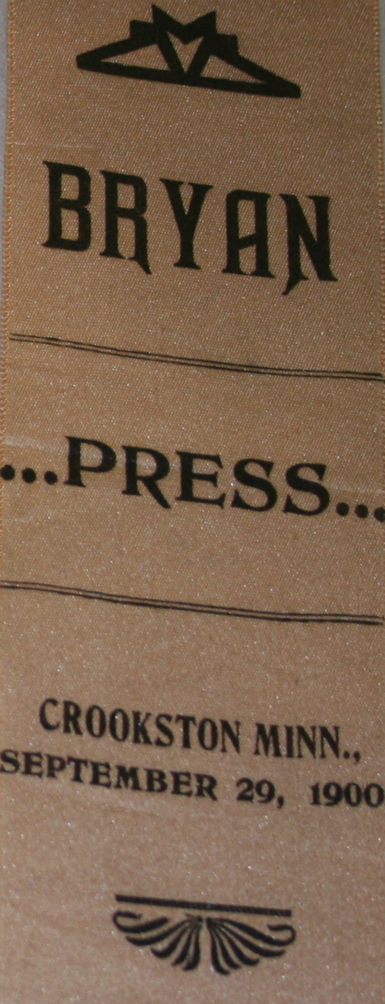 Ribbon press pass to a William Jennings Bryan campaign event in Crookston, Minnesota dated 1900 September 29.